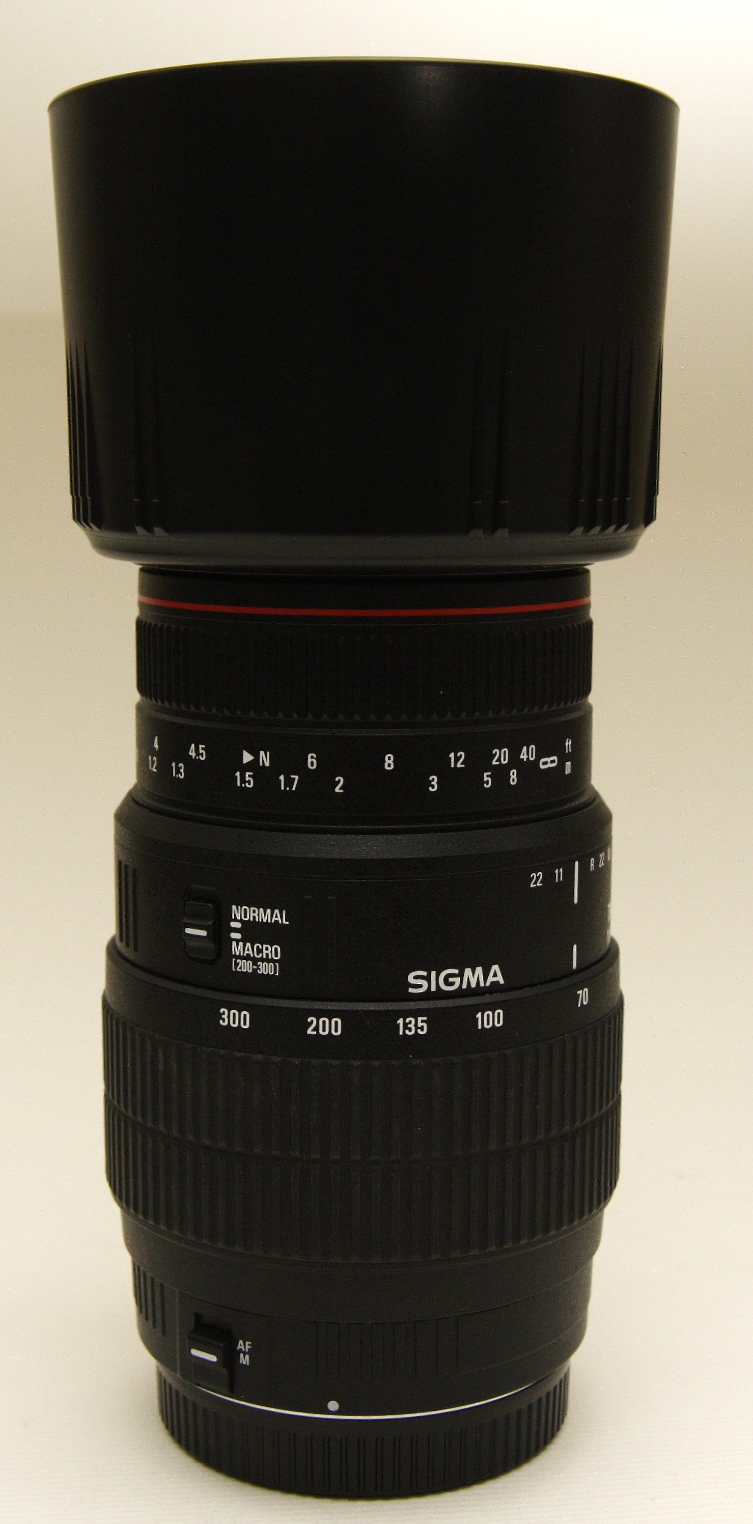 Sigma APO MACRO SUPER 70-300mm F4-5.6 lens